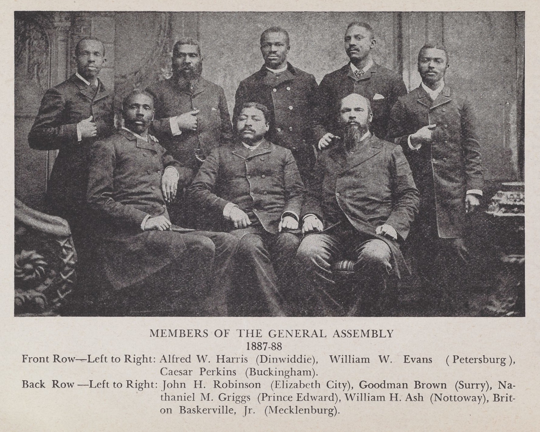 African American delegates to the Virginia General Assembly from 1887 to 1888